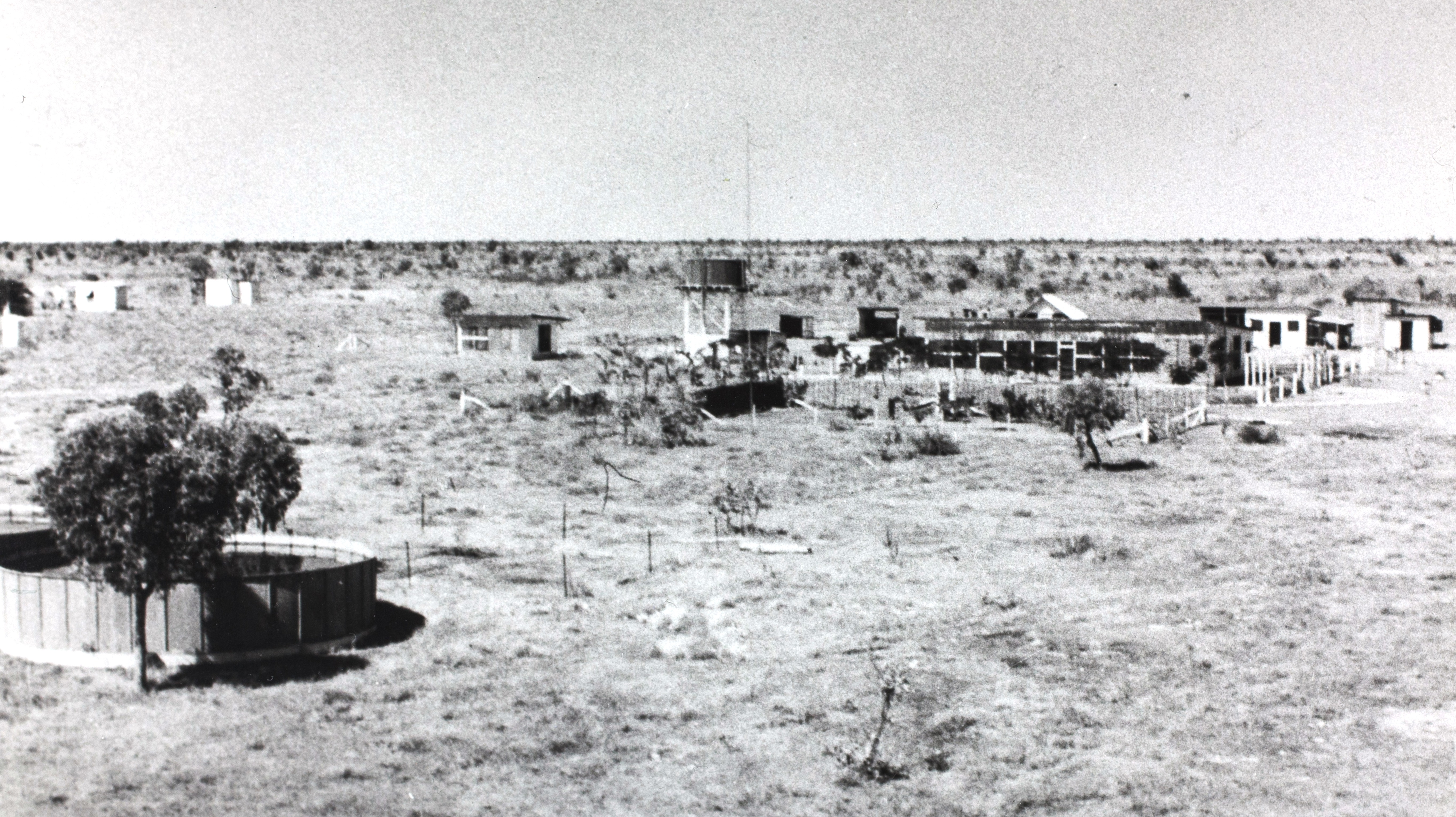 "A black-and-white photograph of Cattle Creek, then an outstation of Wave Hill Station in the Victoria River District of the Northern Territory. The photograph shows living quarters and various outbuildings, and also gives an impression of the flat dry landscape in this part of NT. A water reservoir, possibly for use by cattle, is visible in the foreground." (